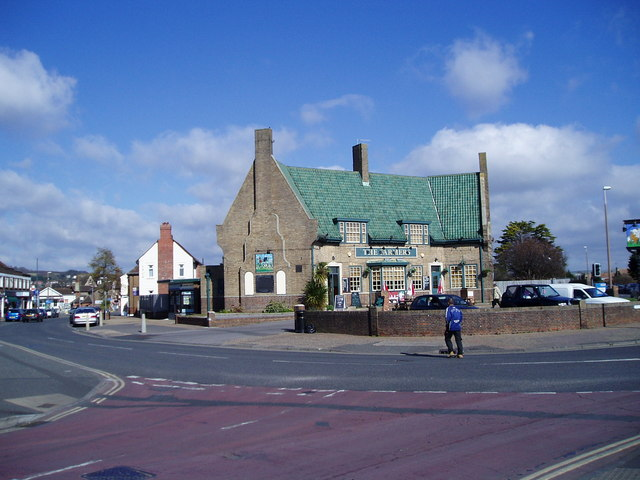 Farmers, South Street A large and roomy two-bar pub situated between South Street (B2222)and Grinstead Lane (A2025).